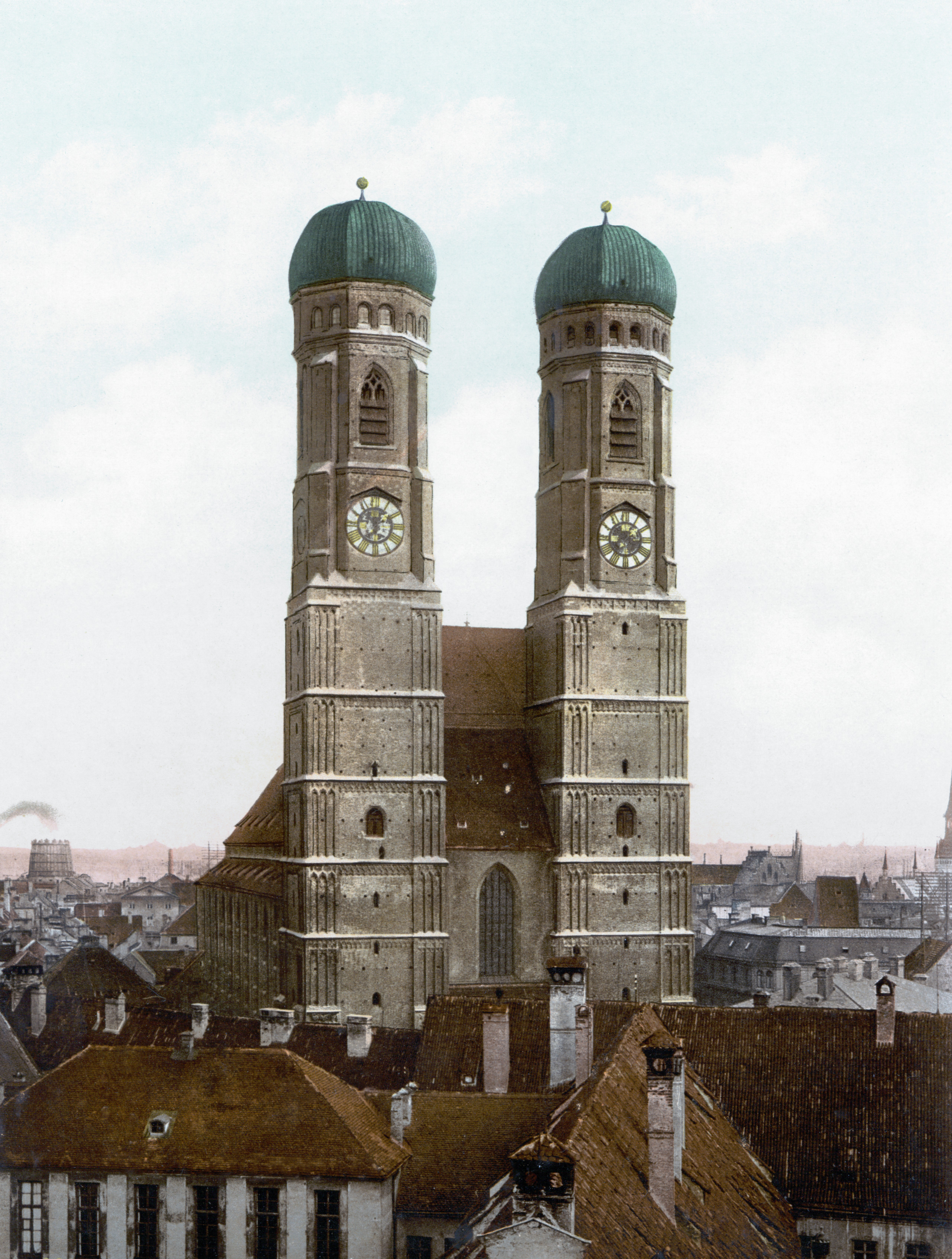 Gothic church in Munich, photo about 1900